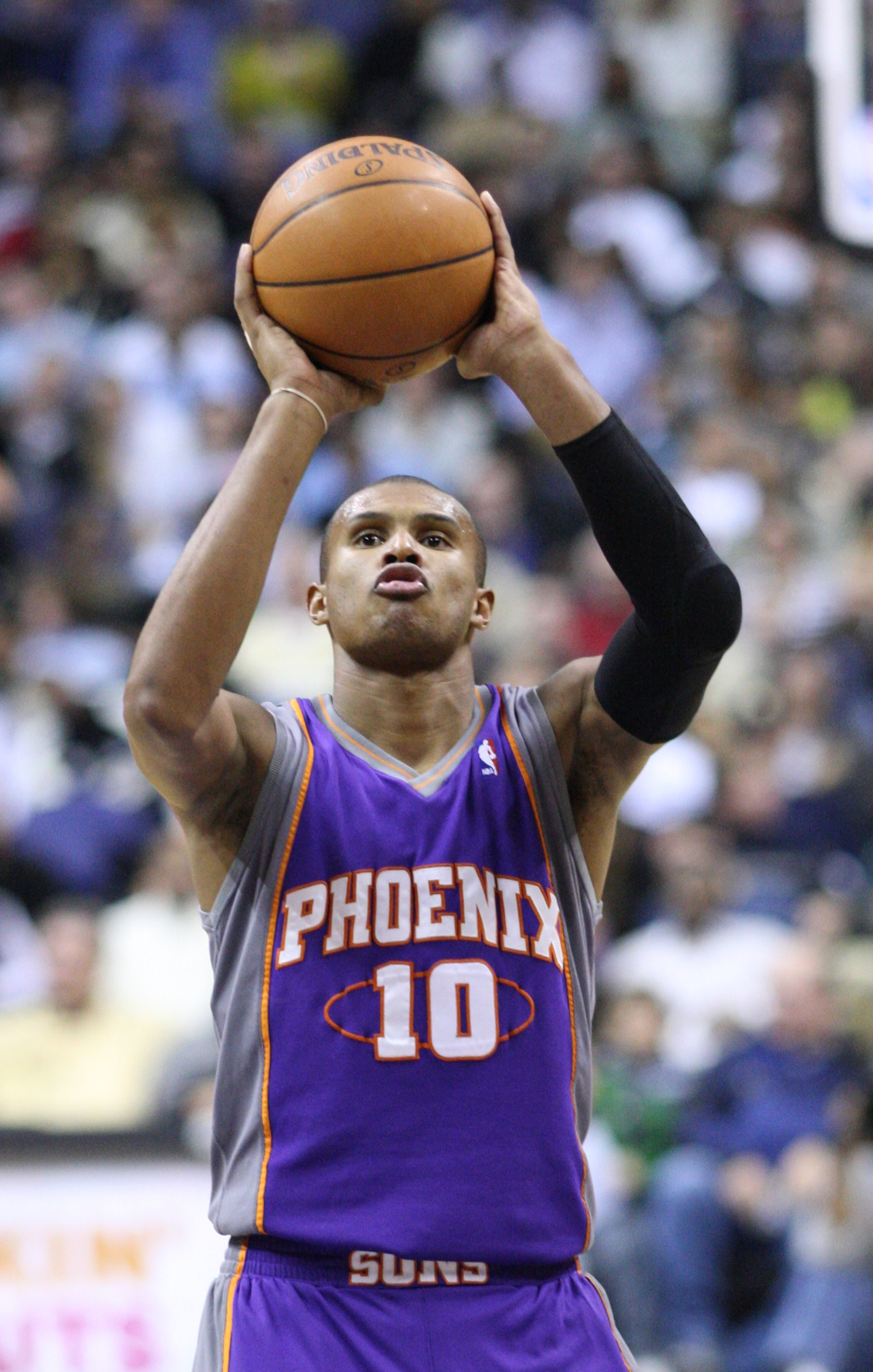 Leandro Barbosa taking a free throw.